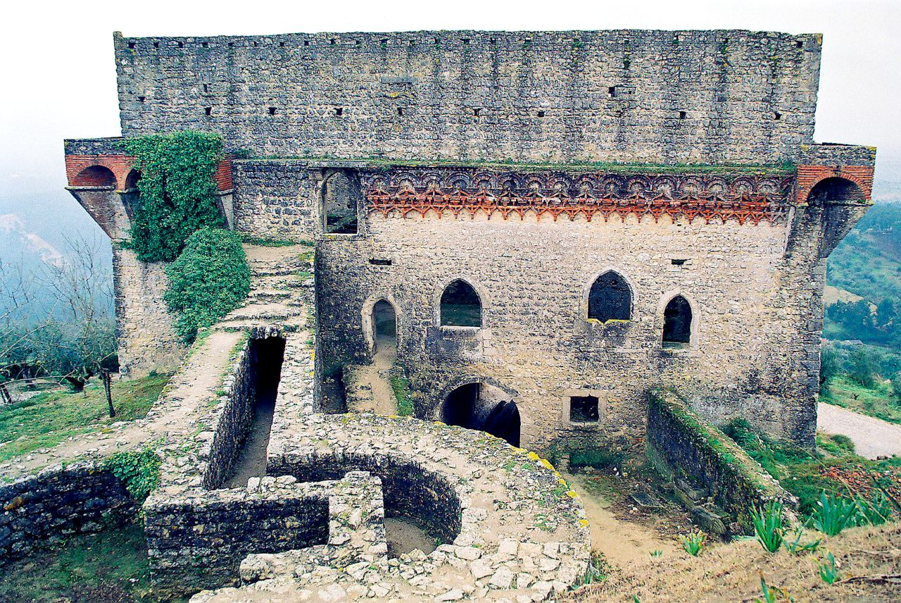 Ruins of Ourém Castle, Portugal